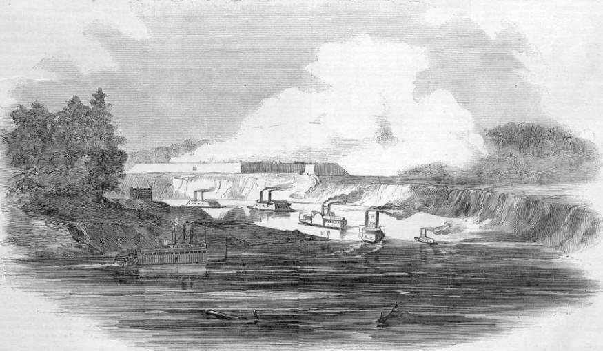 Bombardment of Arkansas Post (Arkansas County), January 1863, as illustrated in the February 7, 1863, issue of Harper's Weekly.